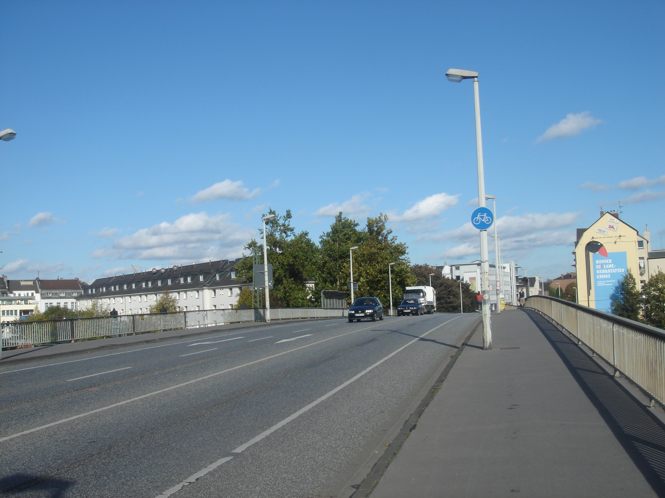 The Viktoriabrücke in Bonn, Germany.